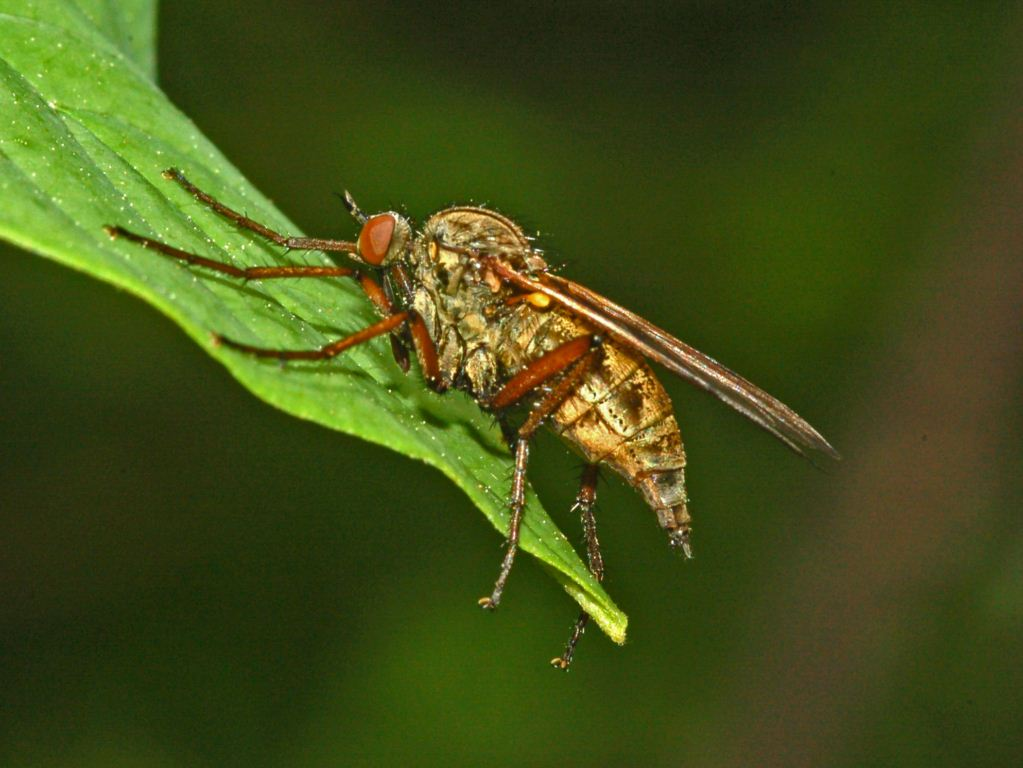 E. testacea